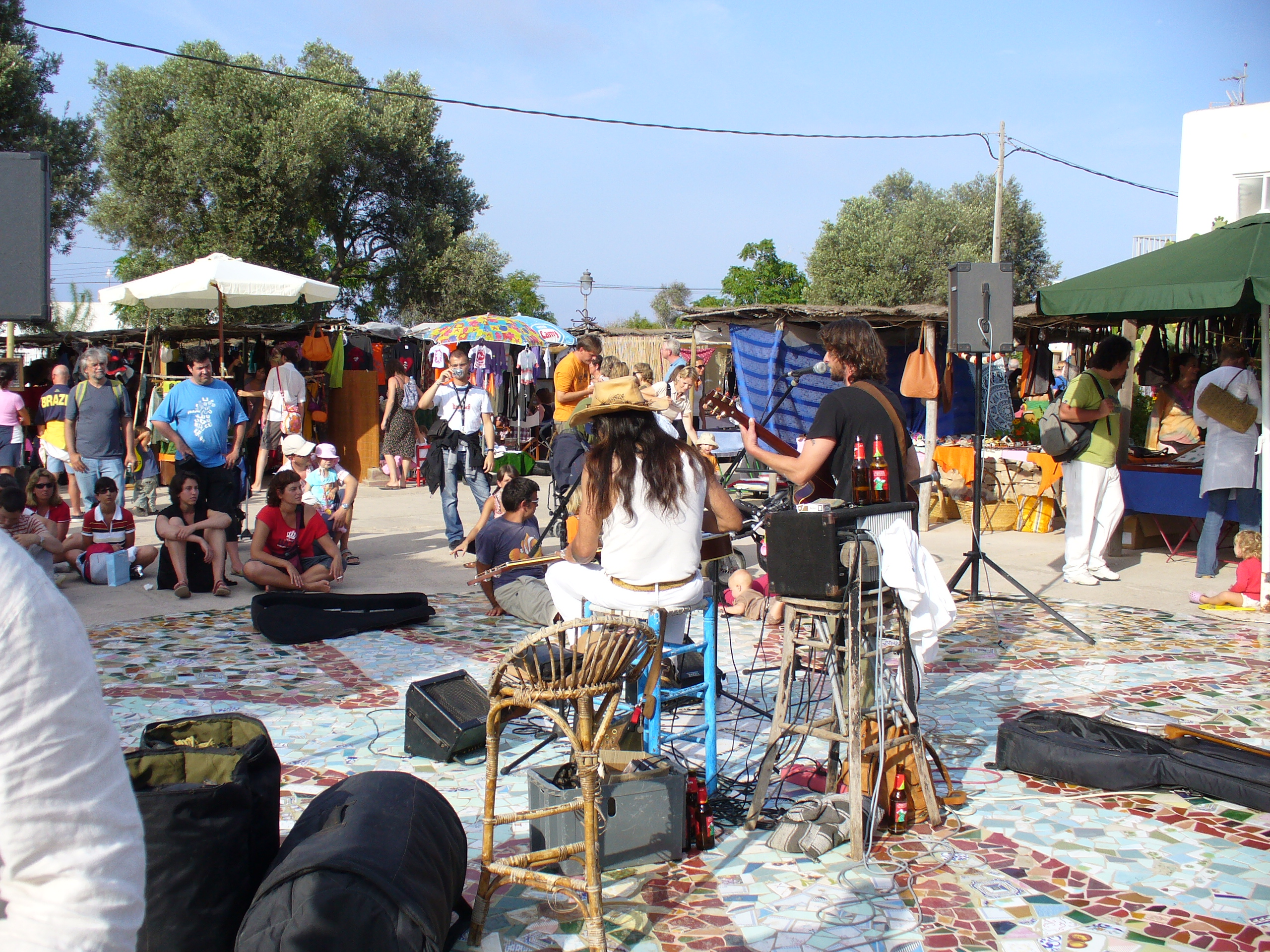 Musical performance in the artist market in El Pilar de la Mola